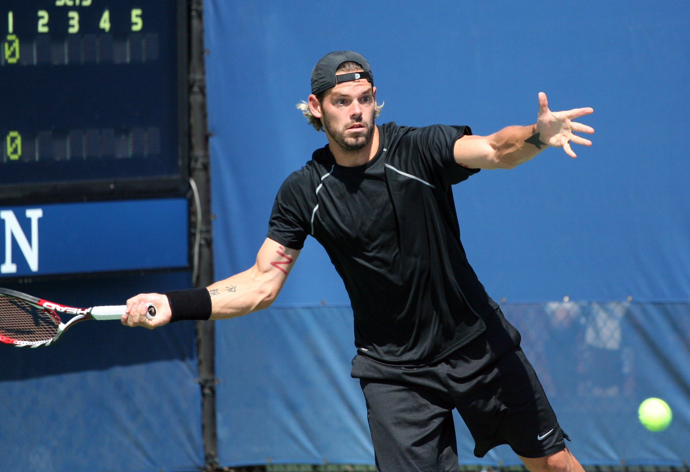 U.S. Open Friday, Sept. 4, 2009